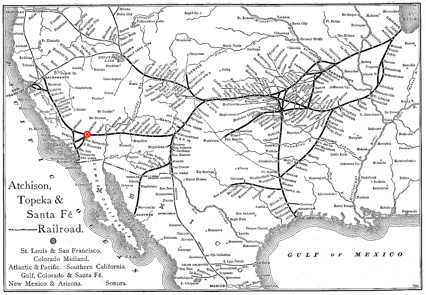 An Atchison, Topeka & Santa Fe Railway Route Map from the 1891 Grain Dealers and Shippers Gazetteer. Marked with a blue cricle is Barstow in California